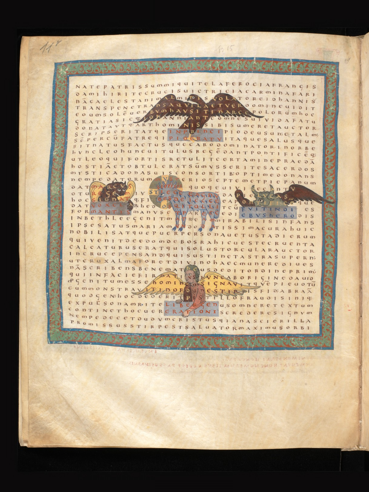 Bern, Burgerbibliothek, Cod. 9: Hrabanus Maurus, Liber de Laudibus Sanctae Crucis